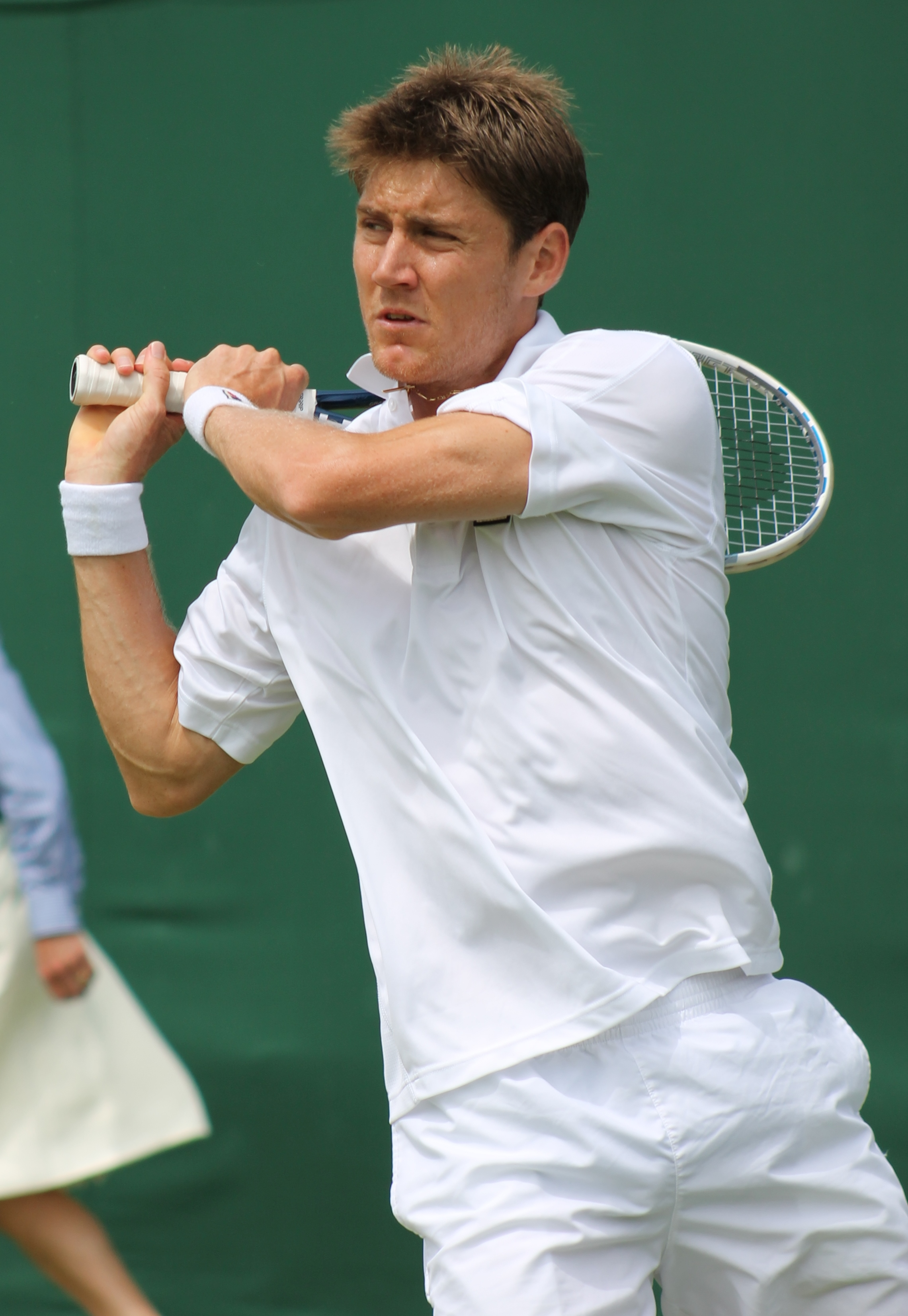 Matthew Ebden hitting a backhand at the 2013 Wimbledon Championships